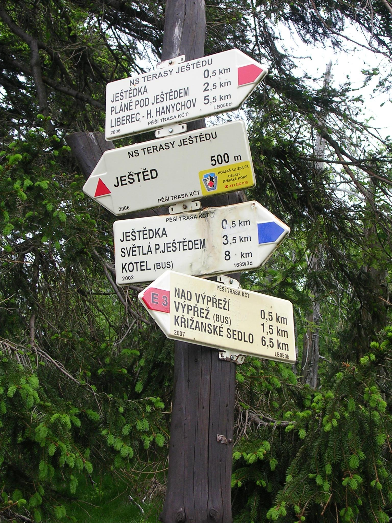 Ještěd. A hiking fingerpost near the summit.